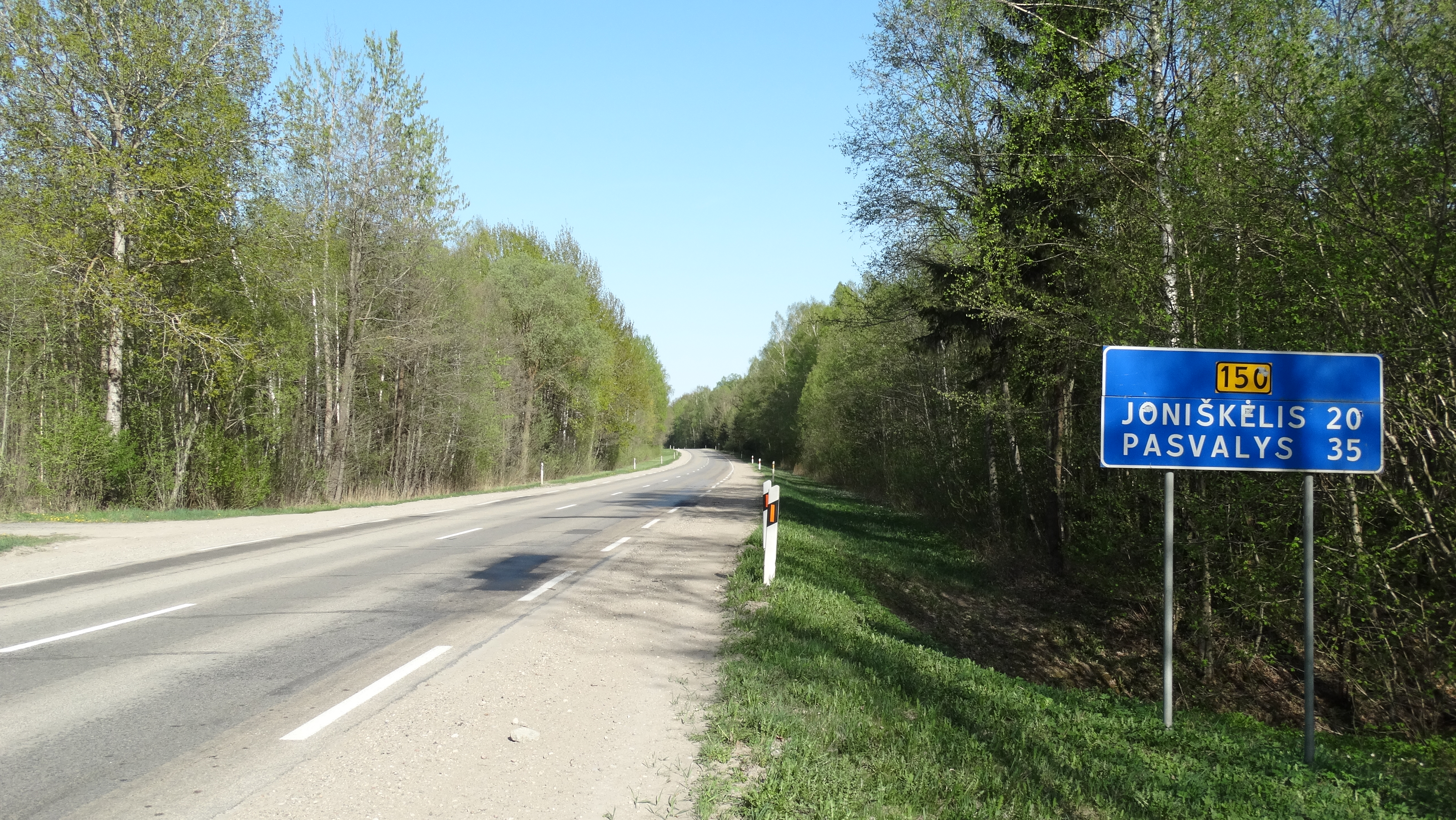 National road 150, Pakruojis District, Lithuania